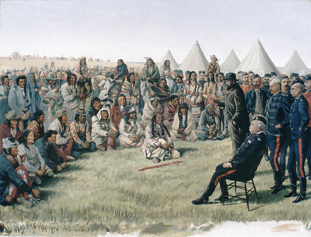 The Surrender of Poundmaker to Major-General Middleton at Battleford, Saskatchewan, on May 26, 1885